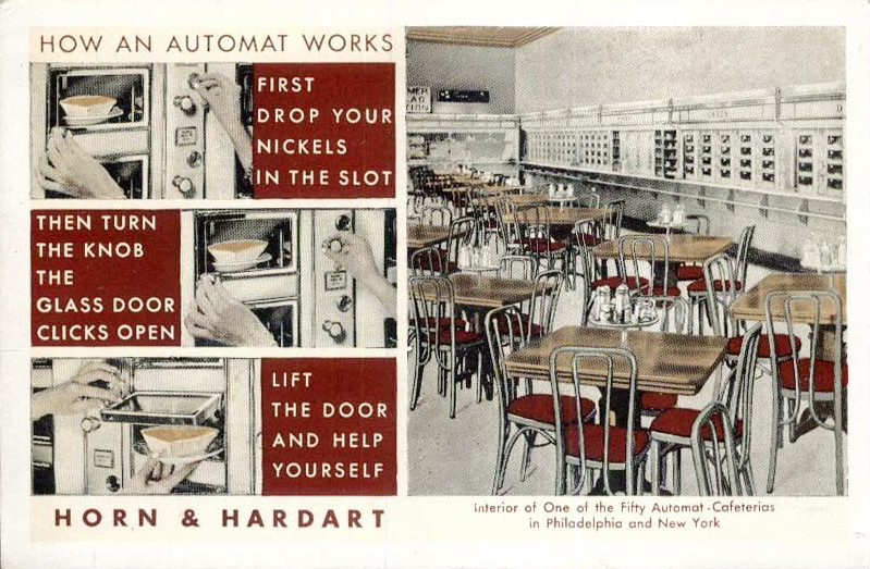 Postcard photo of a Horn & Hardart automat depicting how the automat works.